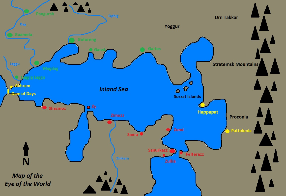 Map of the Eye of the World, the inland sea of the Krozair Cycle from the Dray Prescot series. The map is based on the map published in the German editions of the series.